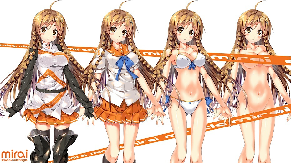 Mirai Suenaga in her solar marine uniform, summer school uniform, aqua skin swimwear, and birthday uniform by Piromizu.